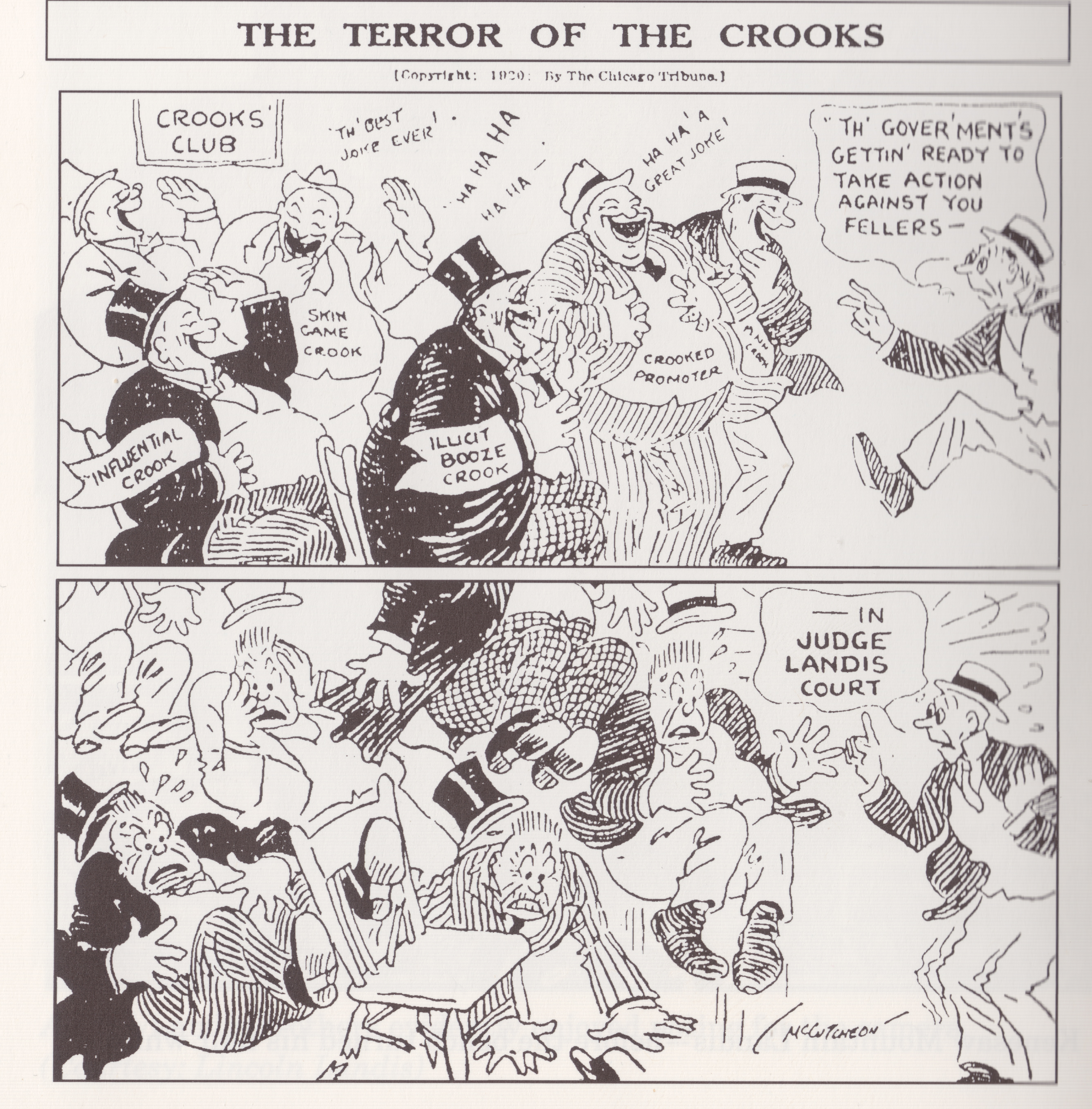 Cartoon by John T. McCutcheon lionizing Judge Kenesaw Mountain Landis. Top panel shows a bunch of portly men in a room labeled "CROOKS CLUB". A man runs in saying "The government is getting ready to take action against you fellers" while the portly men laugh heartily. In the bottom panel the messenger adds "In Judge Landis Court!", the portly men react with shock and fear. This was originally published in Chicago Daily News (1920).